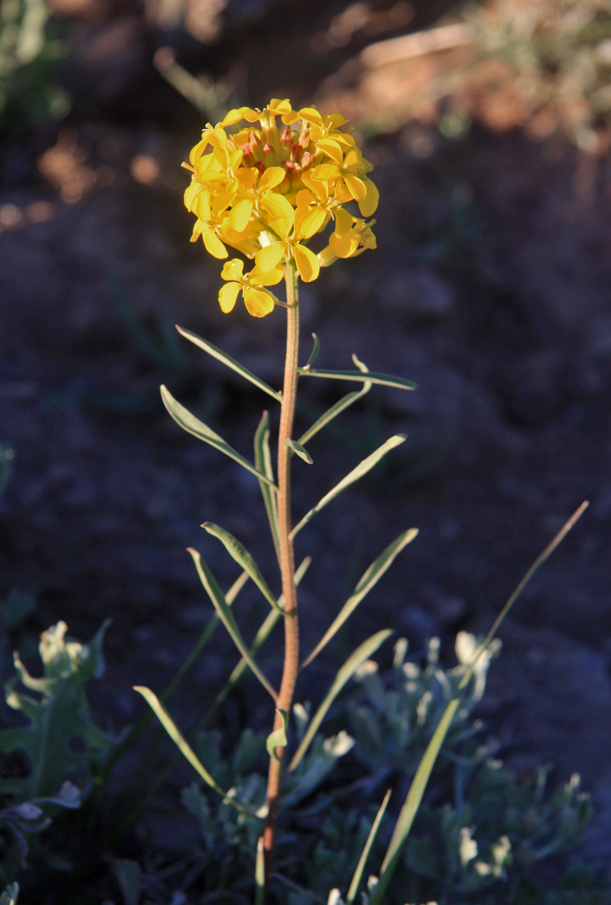 Western wallflower (Erysimum capitatum) yellow flowers, stem, & leaves. Ridge above Minaret Vista at about 2850m, between Mammoth Lakes and Devil's Postpile.